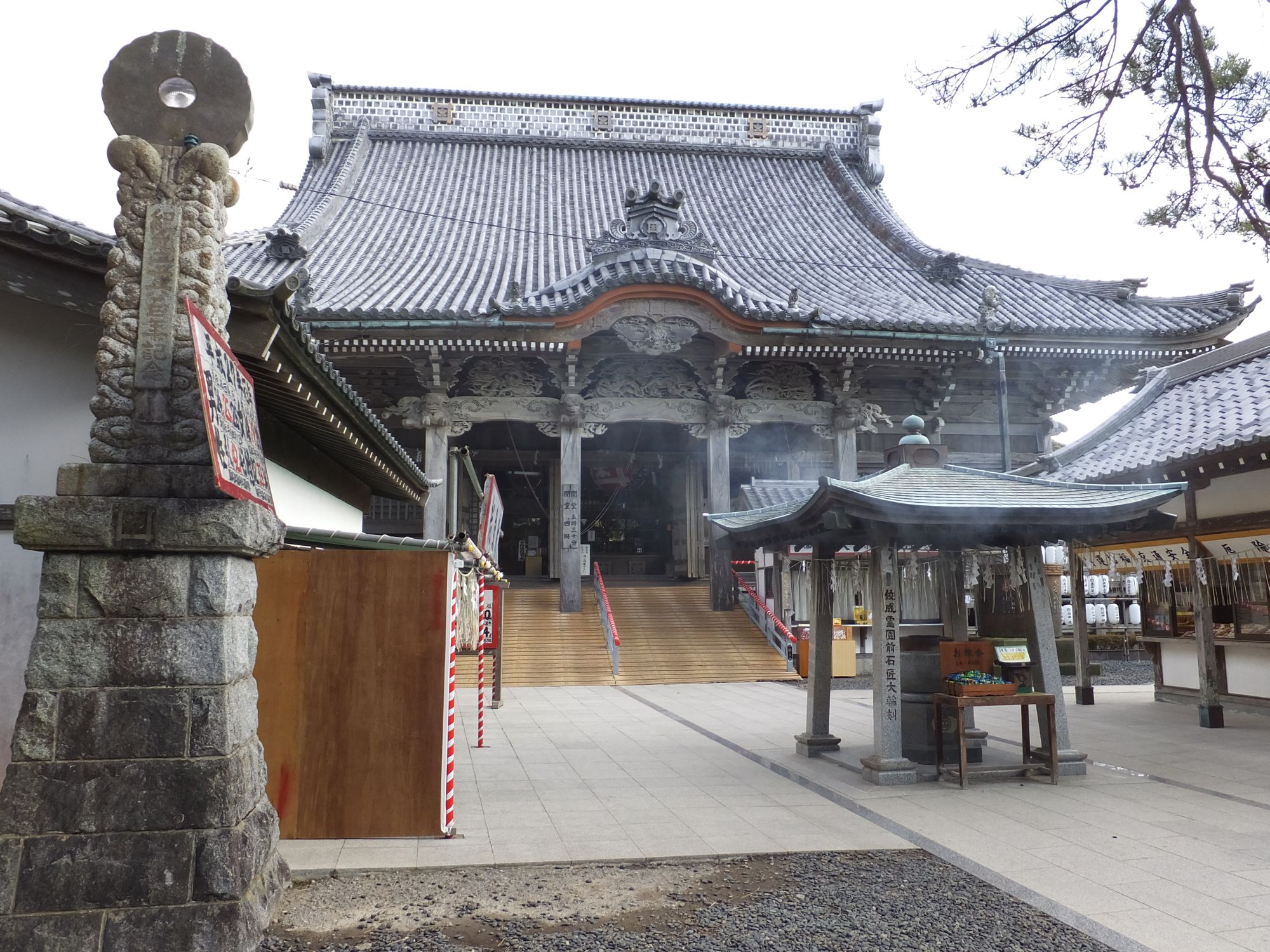 Soshi-dō (founder's hall) of Tanjō-ji temple in Kamogawa, Chiba Prefecture